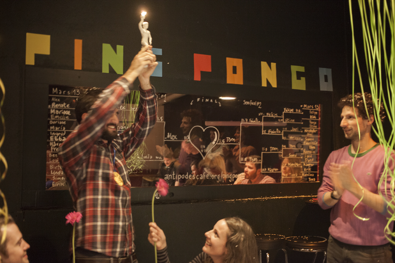 Alex Asensi during award ceremony after his victory in the tournament "Hot. Cool. Yours." held in Kulturhuset i Oslo, Oslo, Norway in March 2014.